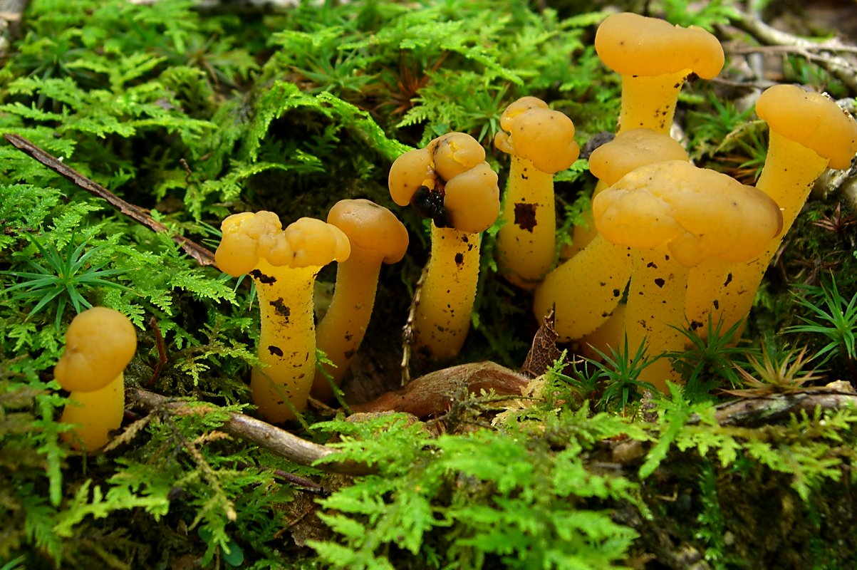 Scientific Name: Leotia lubrica Pers. ex Fr. Common Name: Jelly Babies Certainty: pretty sure (notes) Location: Southern Appalachians; Smokies; CabinCove